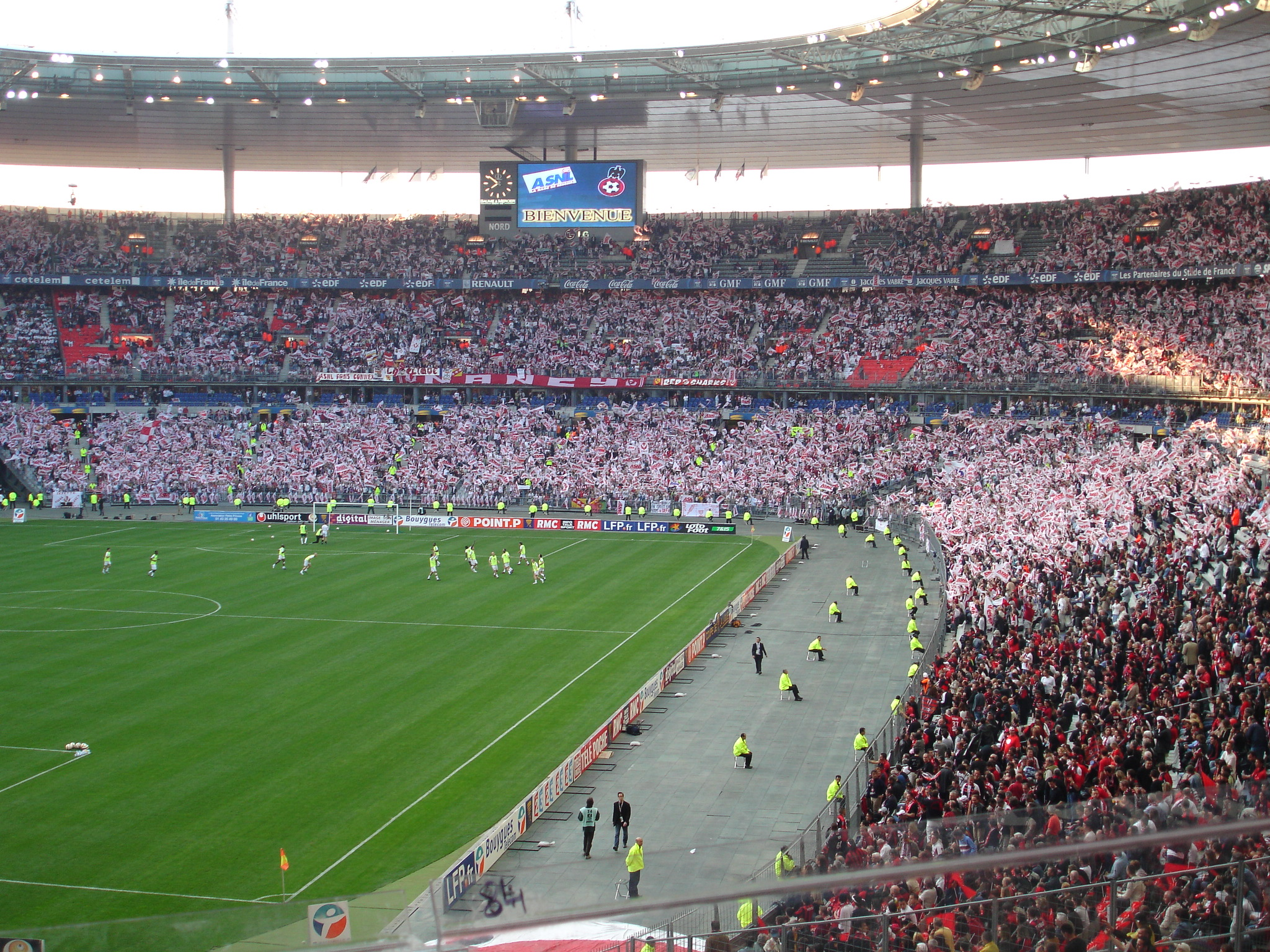 French League Cup final between Nice and Nancy. Date = April 2006. Stadium = Stade de France.